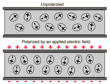 relates to permittivity